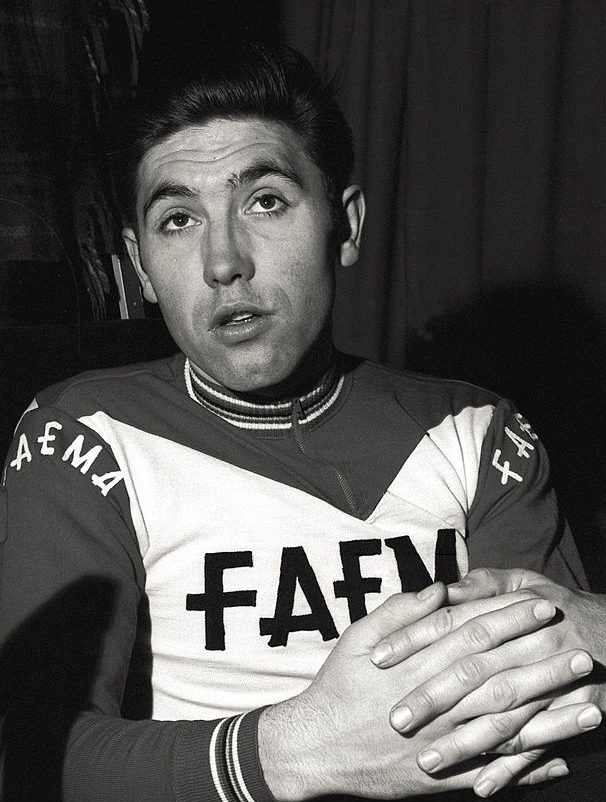 Portrait of the Belgian racing cyclist Eddy Merckx during the 6 Days of Milan. Milan, 1969